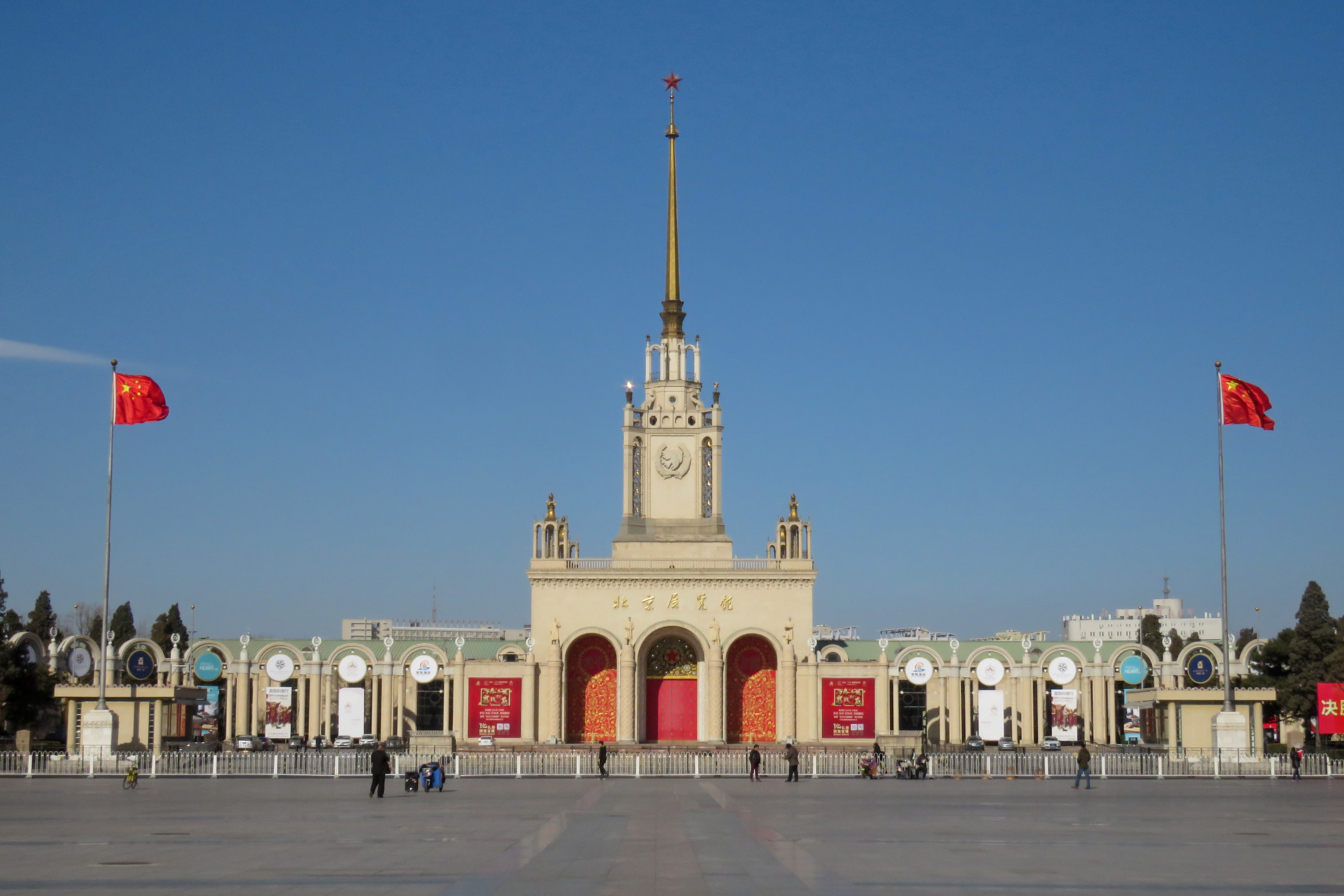 Better weather, but no exhibitions today.